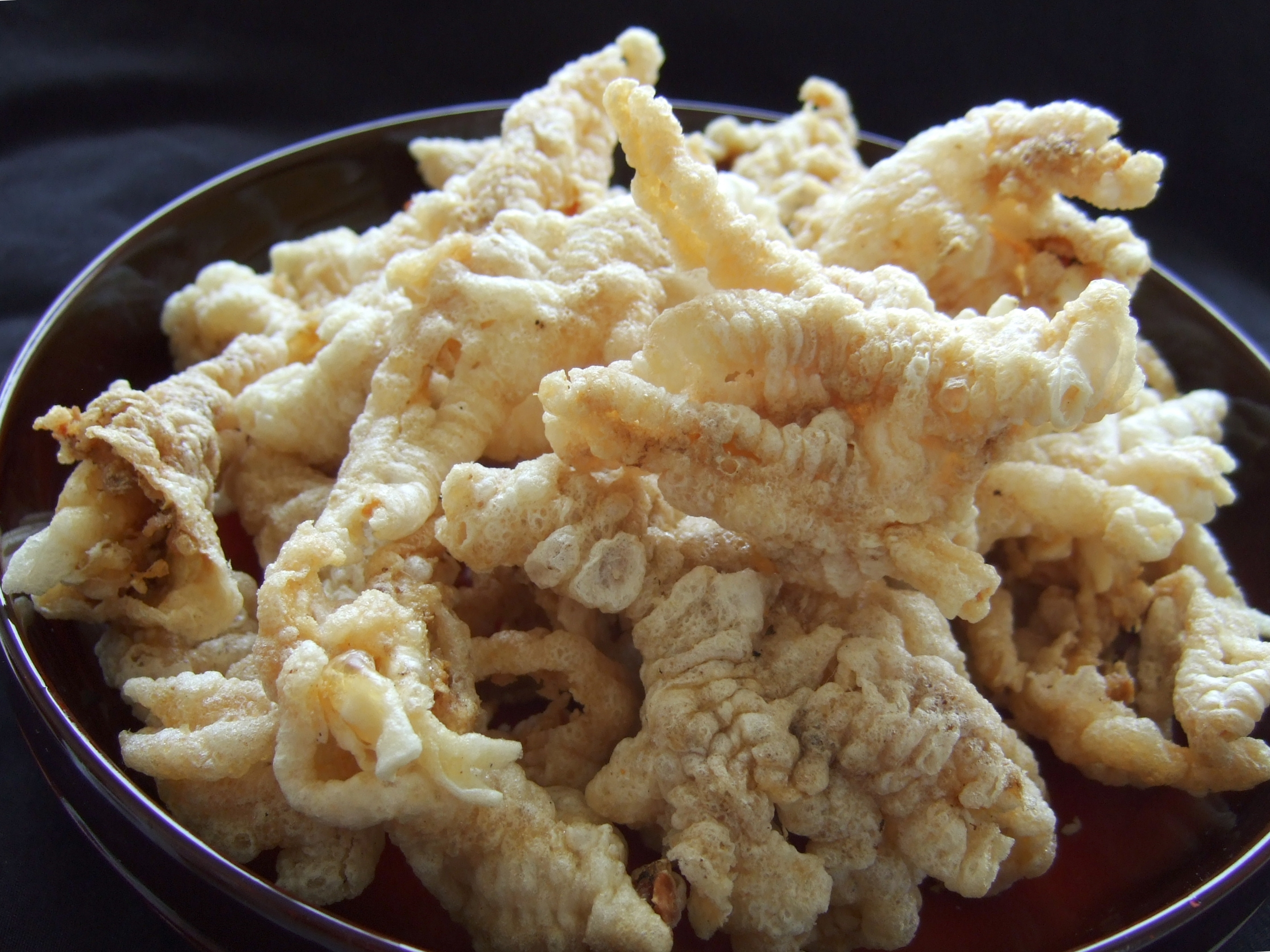 Fried chicken feet as snack